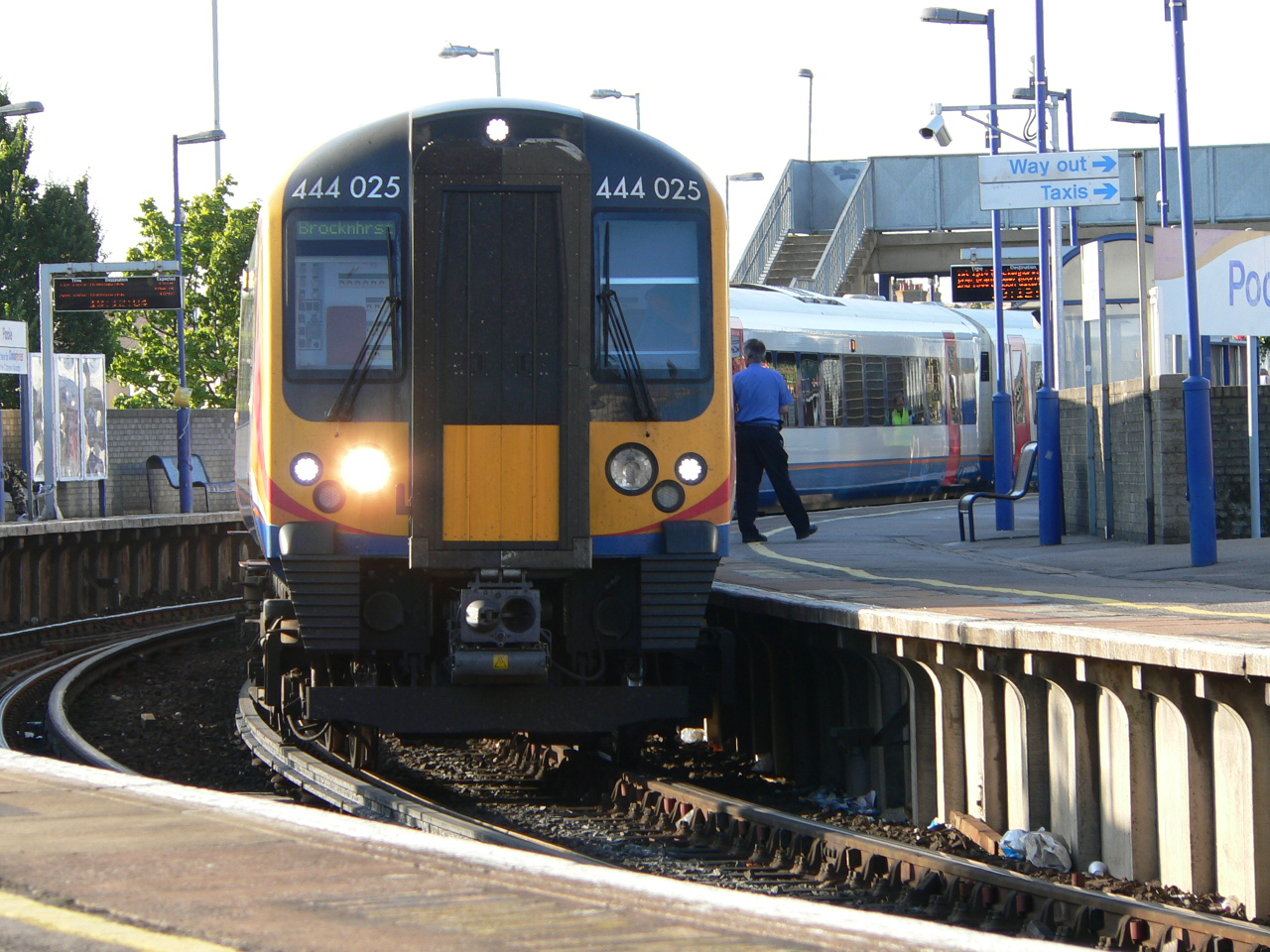 South West Trains Class 444 750v dc third rail EMU 444025 at Poole station with a stopping service to Brockenhurst (abbreviated to Brocknhrst in the destination indicator).